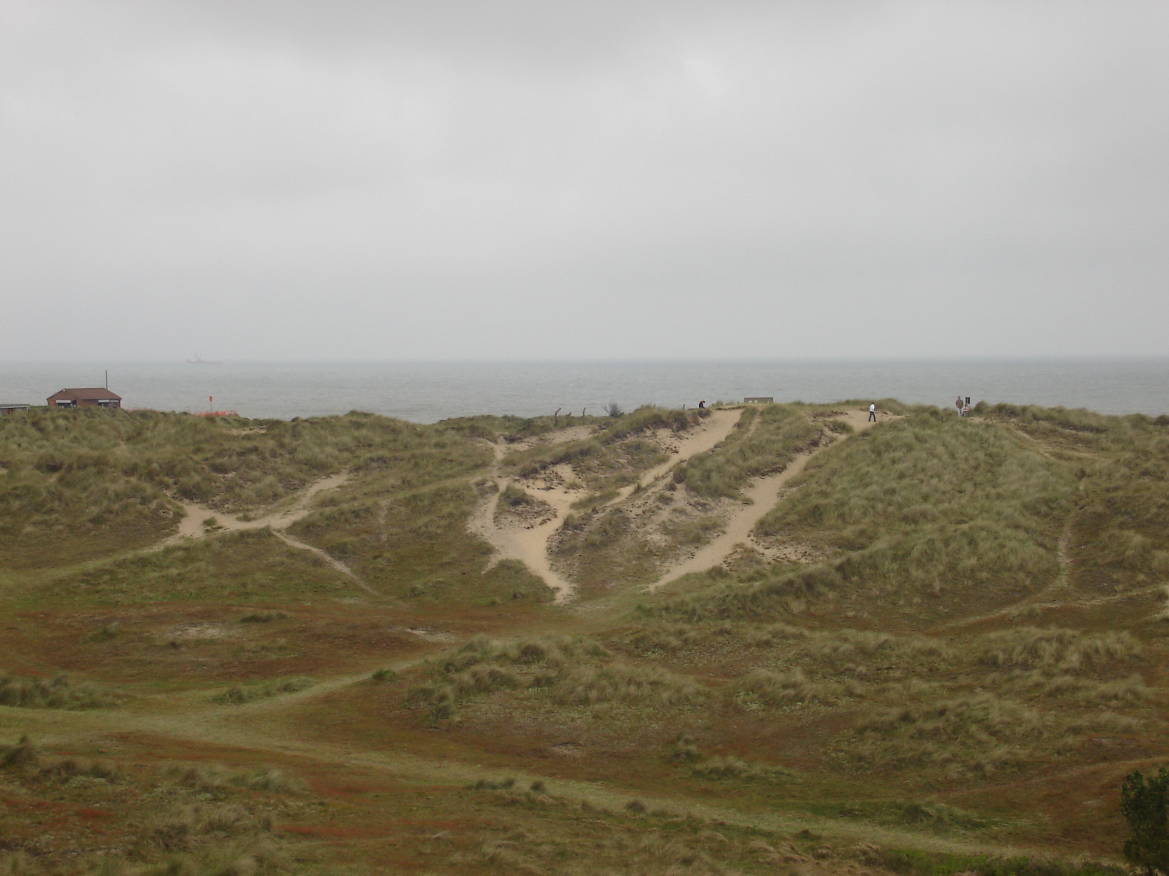 Picture of Winterton Dunes